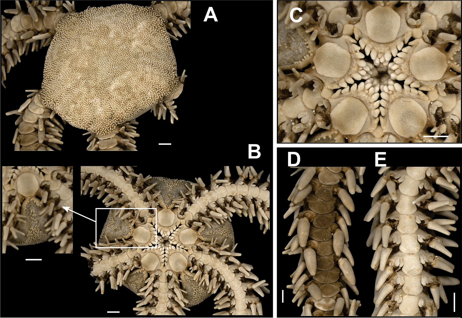 Ophiocoma echinata A dorsal view B ventral view, detail of the genital scale (gs) C jaw D dorsal view of the arms E ventral view of the arms. Scale bar = 1 mm.